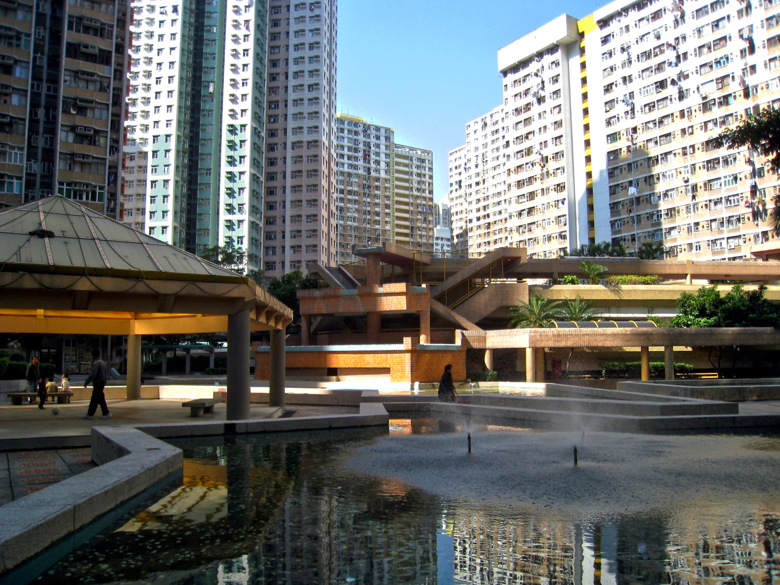 Cheung On Estate Entry Plaza 長安邨